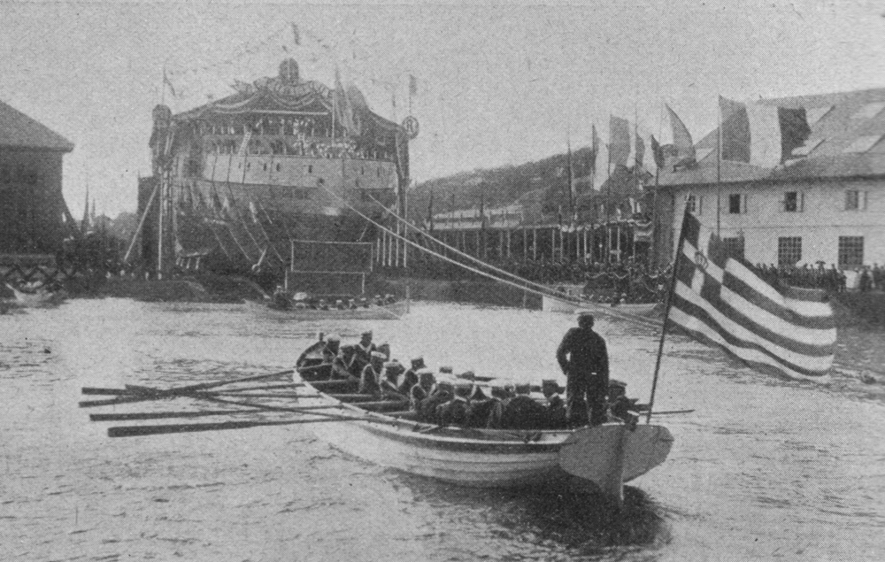 The launching of the french battleship Rèpublique 1902.